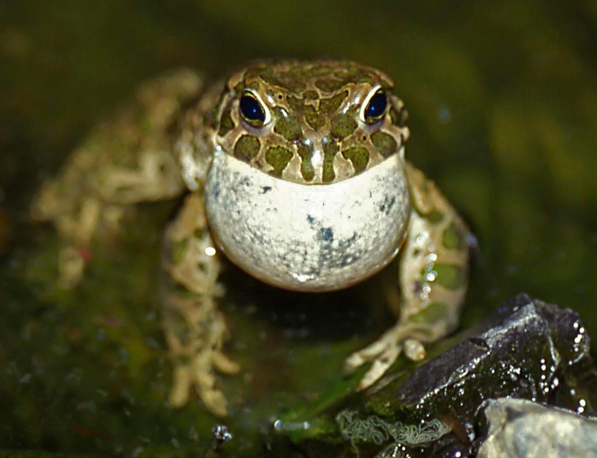 Calling male of a Green Toad (Bufo viridis-Complex) with gular vocal sac – not fully distended. The picture was taken at night in a settlement tank (pond).